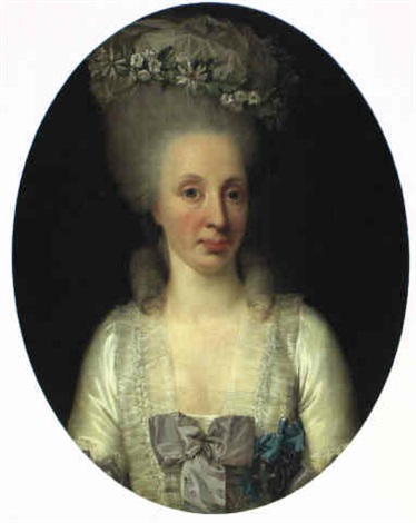 Amalie Christiane Juel, née Raben